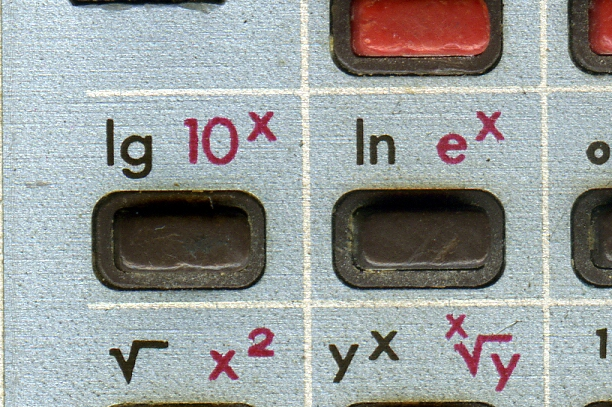 Antilog functions on the calculator Elektronika MK-51